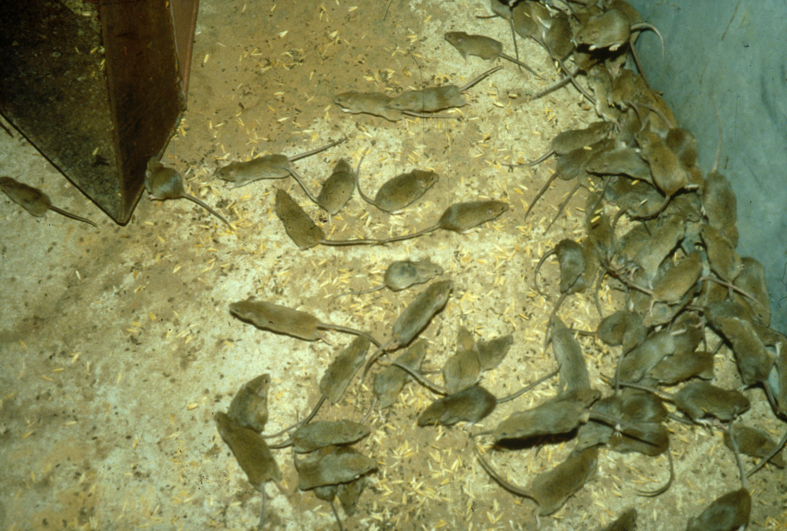 House mouse (Mus domesticus). Darling Downs. Mouse plagues erupt in the grain-growing regions of Australia causing massive disruption to communities and losses to farmers. Photo credit: Grant Singleton